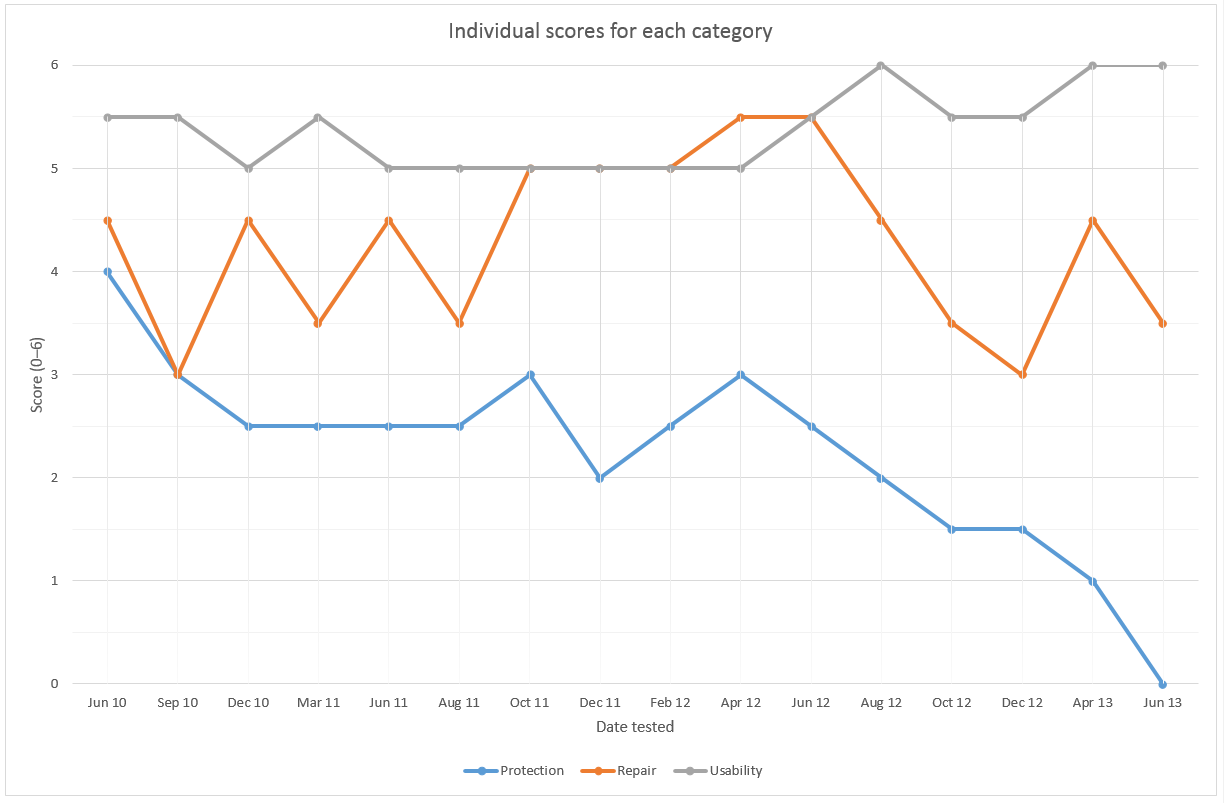 A chart that shows the results of antivirus software tests on Microsoft Security Essentials, between June 2010 to December 2012.